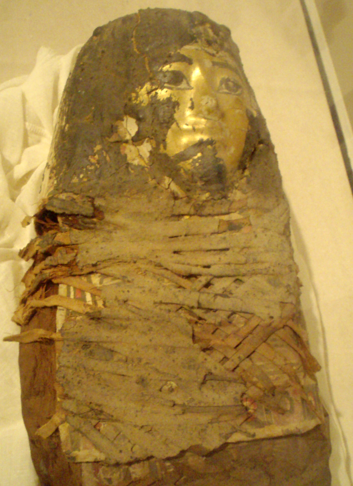 Close-up of a Roman-era mummy of a 4 1/2 year old girl, known as "Sherit". Dark material on faceplate is are the remains of perfume originally poured on the head of mummy at the time of burial.